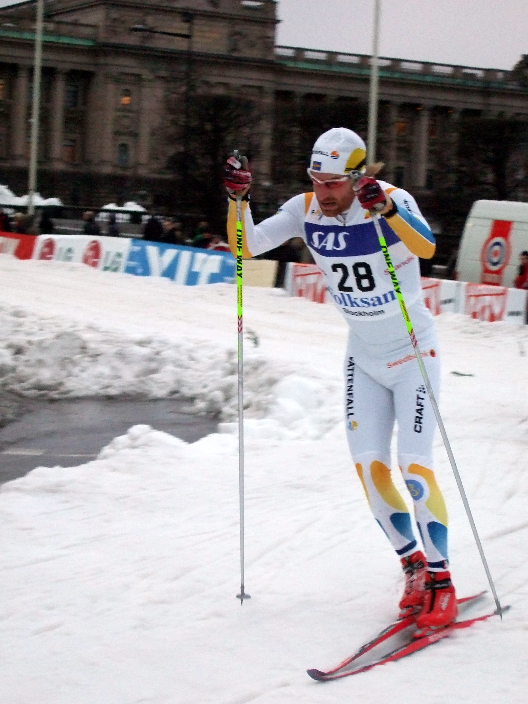 Petter Myhlback at the Royal Castle World Cup sprint in Stockholm, Sweden